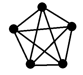 shows local network topology of herbivore